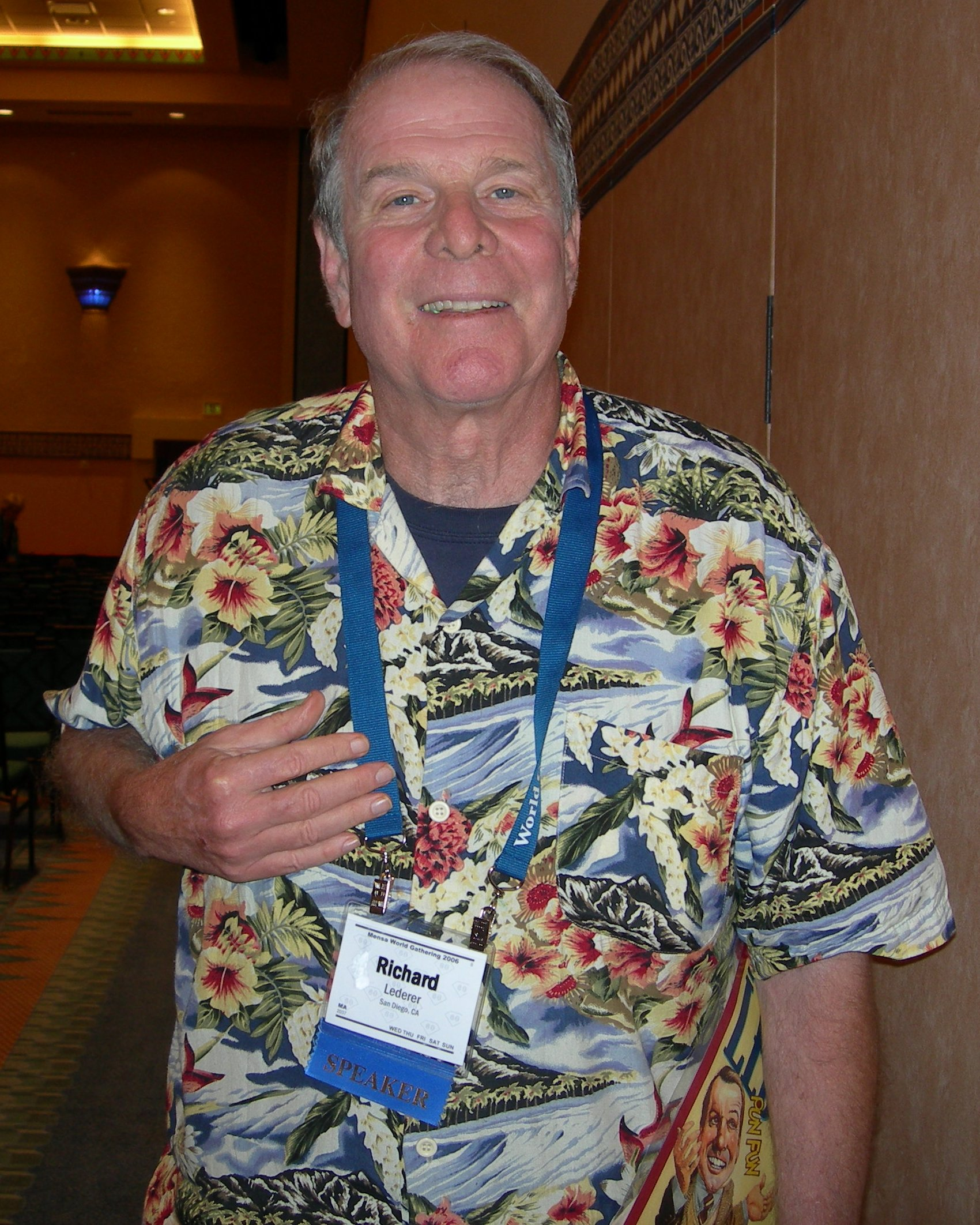 Picture of language-book author Richard Lederer taken at the 2006 Mensa World Gathering at Walt Disney World. Taken by the uploader, Daniel R. Tobias.